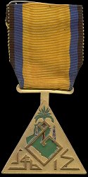 Face (obverse) of Iraqi medal with stylized Arabic letter ج for جيش "army" (cf. File:IQAF Symbol.svg)